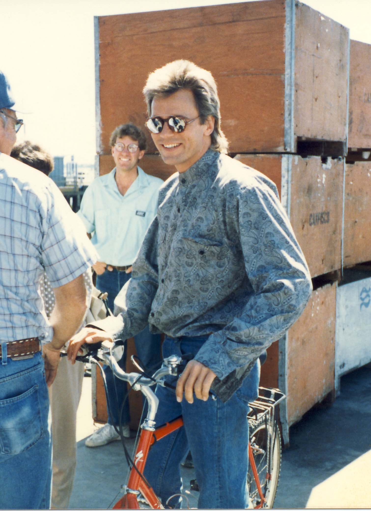 Richard Dean Anderson on the set of "MacGyver" in British Columbia, Canada, circa 1985